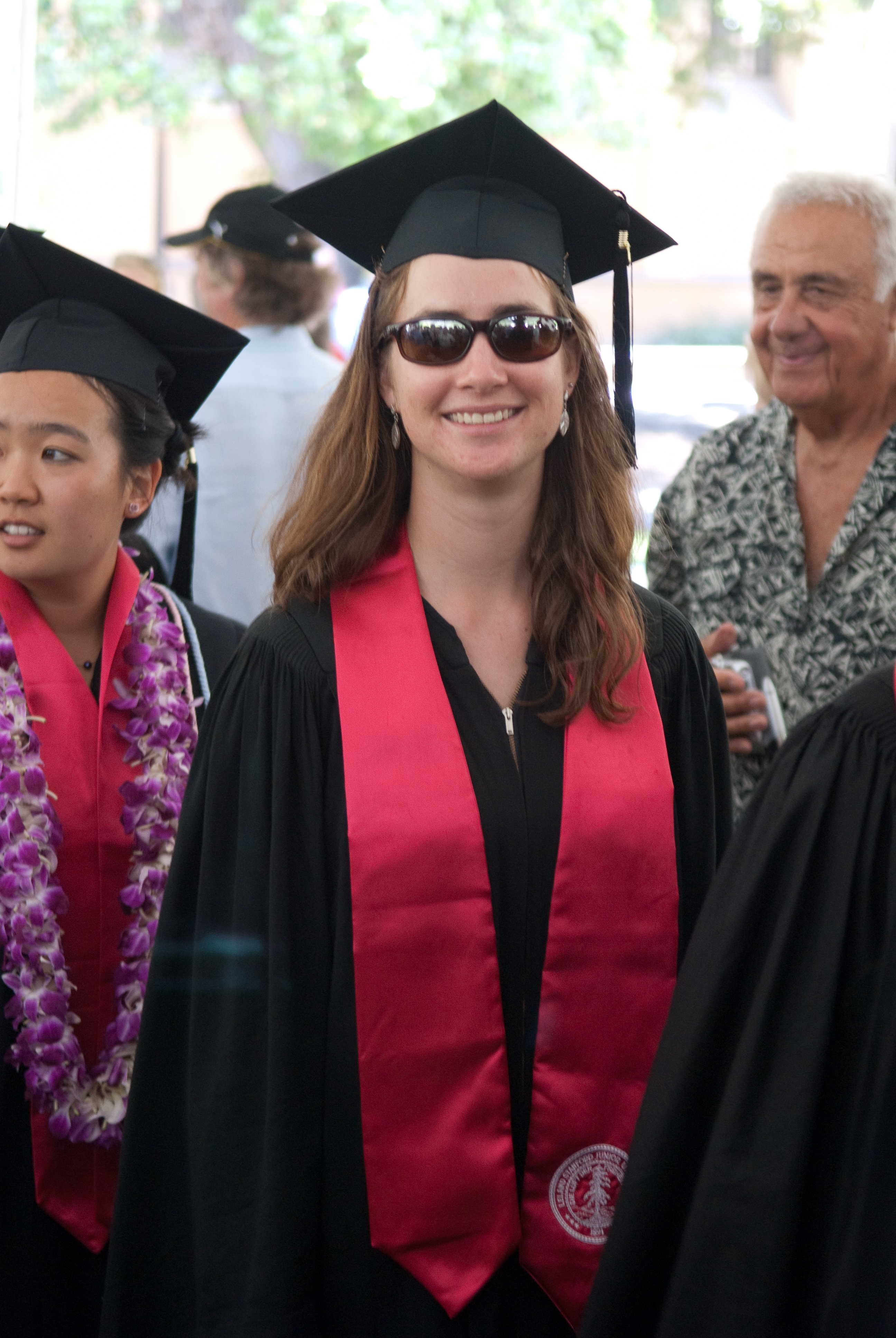 A Stanford University graduate preparing to receive her bachelor's degree certificate.